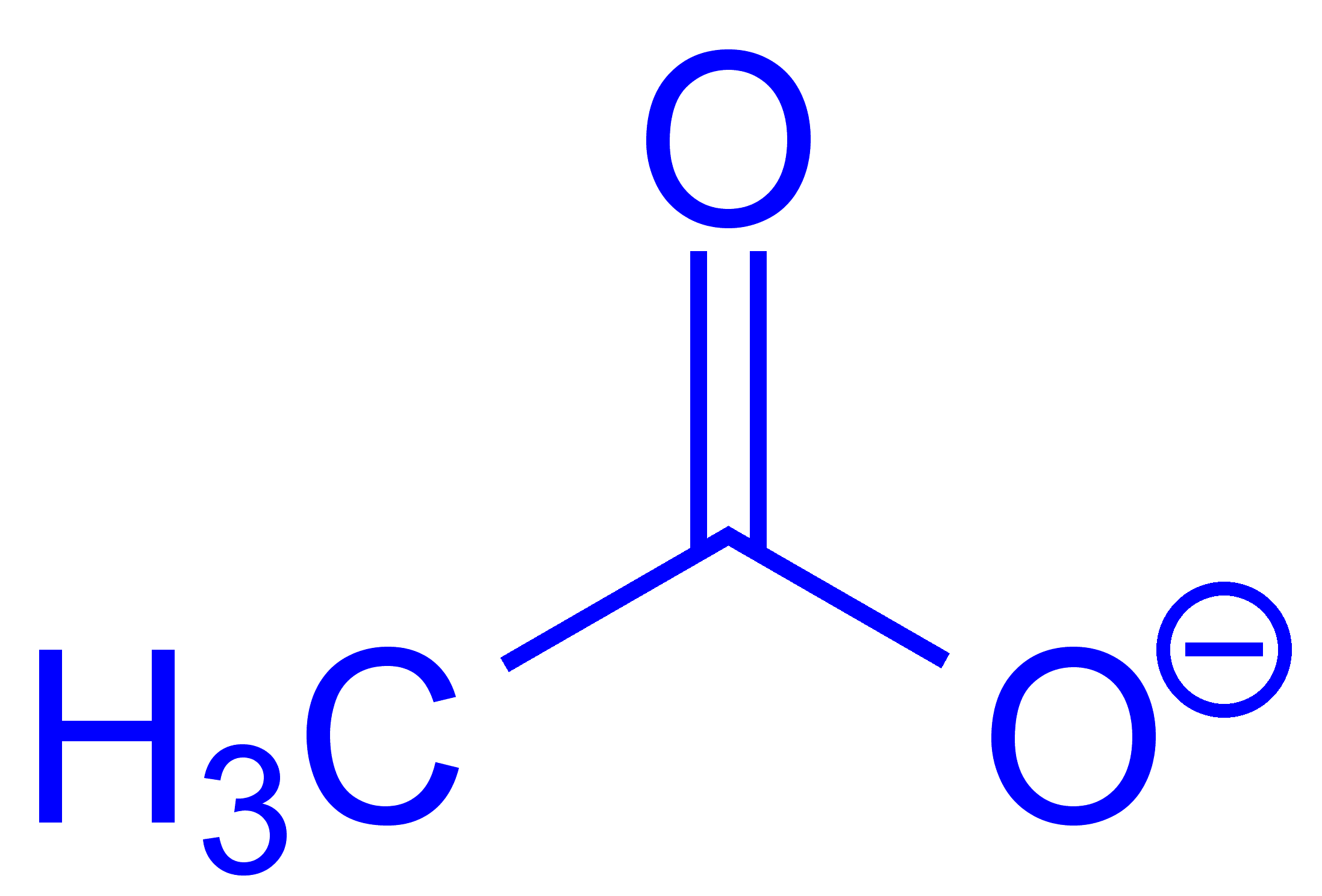 Acetates(Anion)_Structural_Formulae